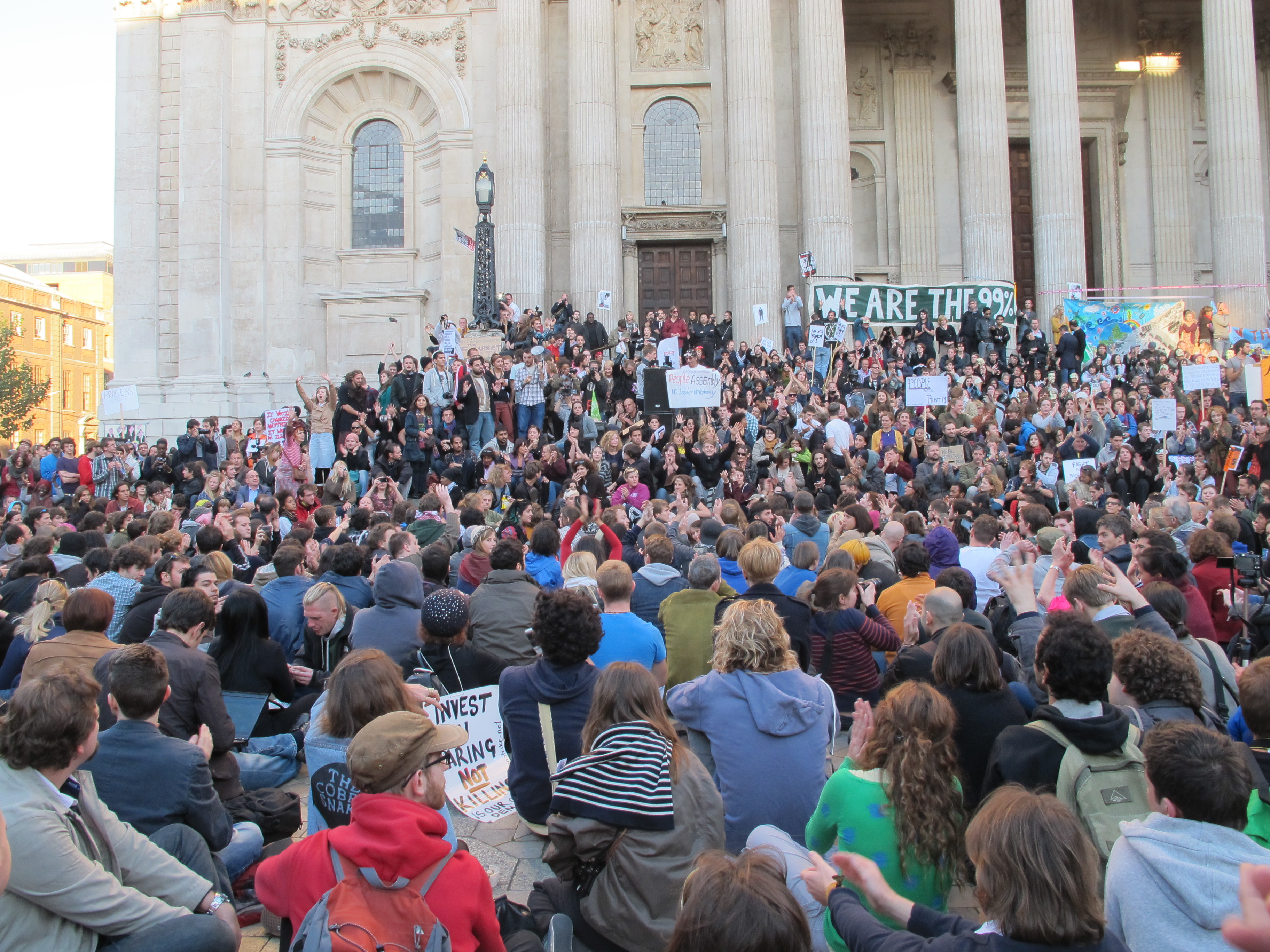 Occupy London, 16 October 2011, St. Paul's Cathedral